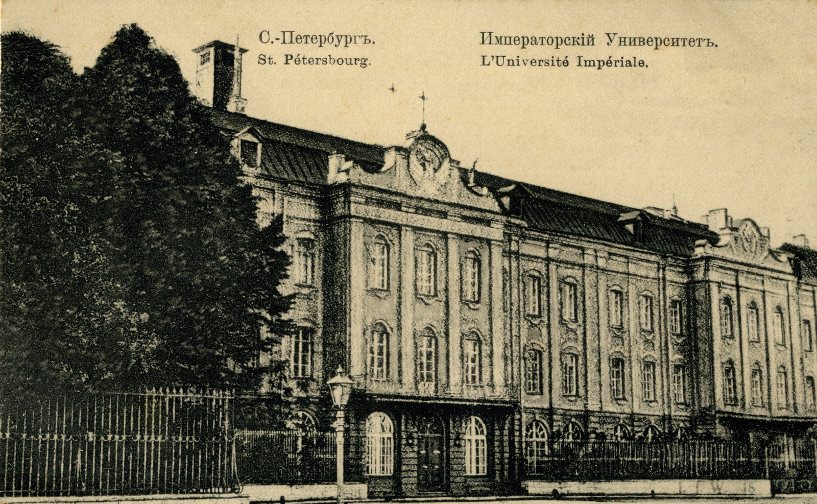 Saint Petersburg University.